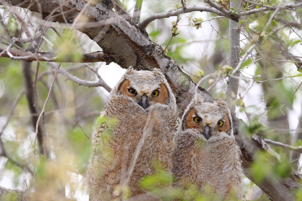 Juvenile Great Horned Owls near Tule Lake National Wildlife Refuge, Oregan, USA.